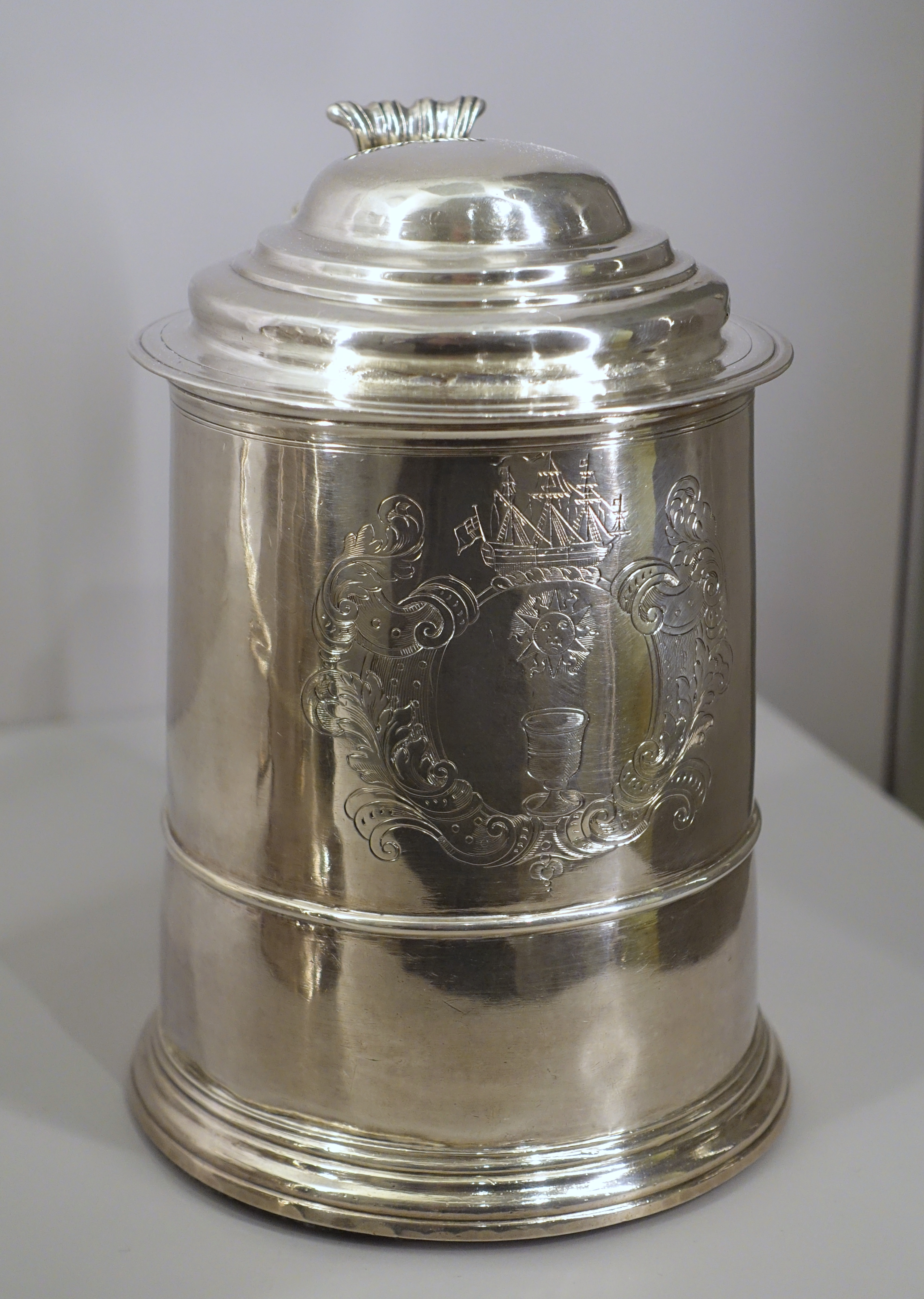 Exhibit in the Fogg Art Museum, Harvard University, Cambridge, Massachusetts, USA. This artwork is in the public domain because the artist died more than 70 years ago.